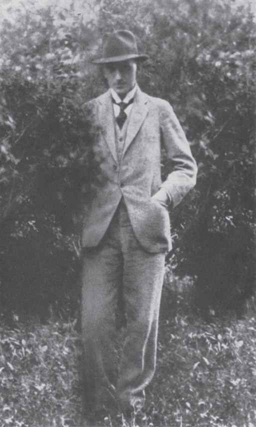 Carl Robert Larsson (1885-1956), Swedish editor and writer